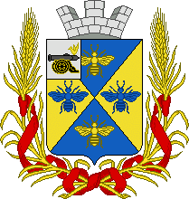 Coat of arms of Roslavl (1859-1863)